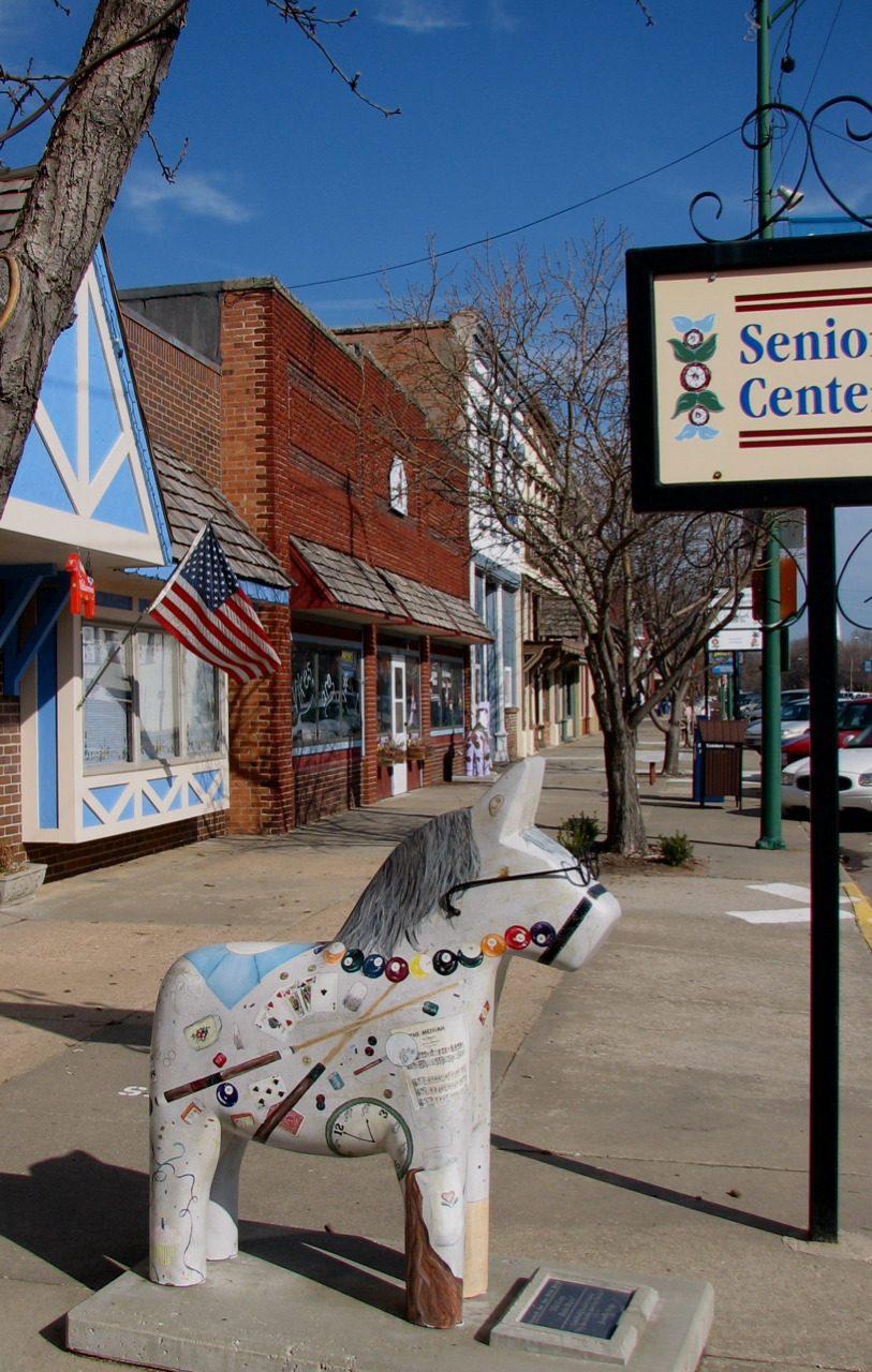 Dala statue in downtown Lindsborg, Kansas, USA